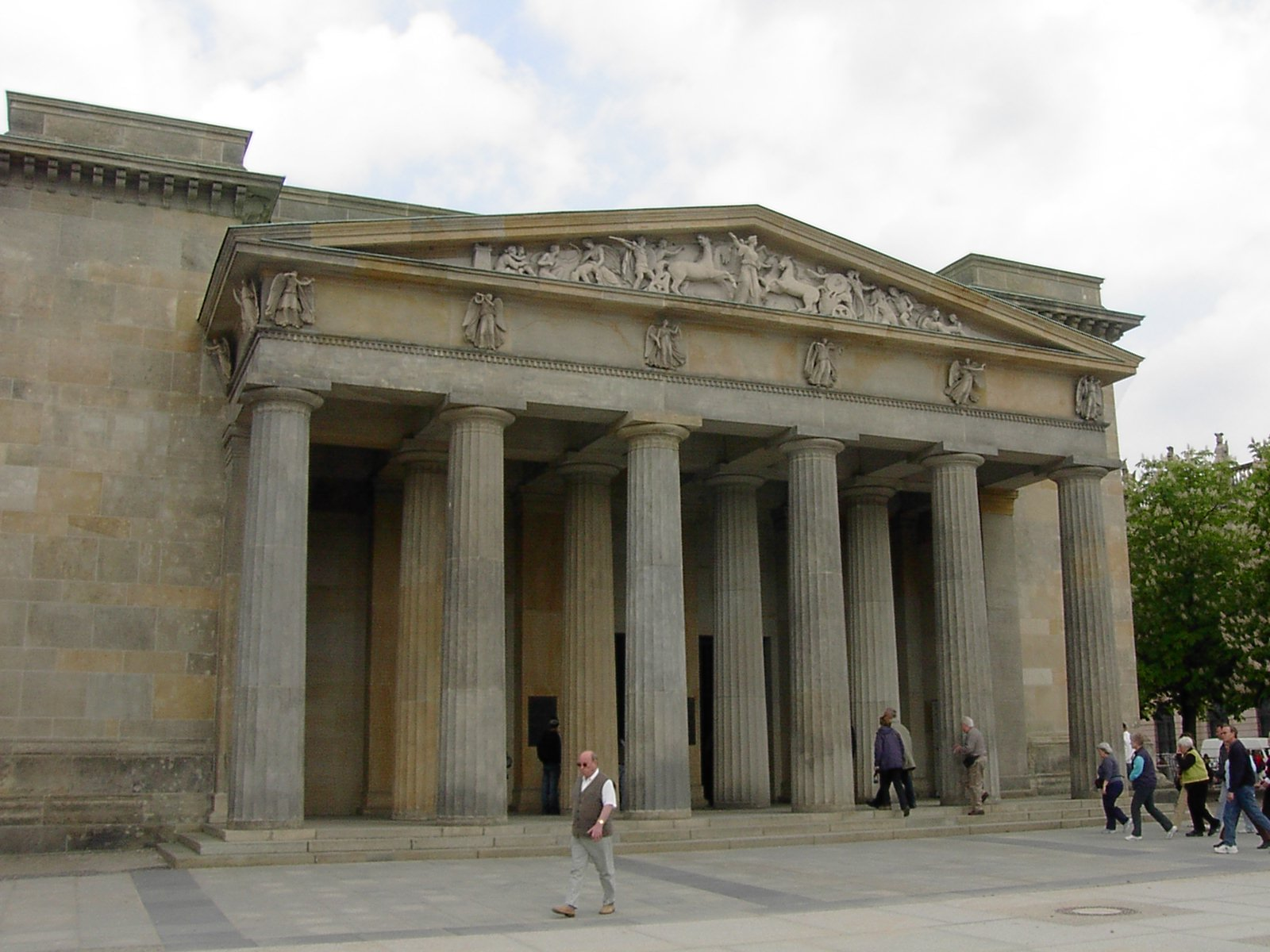 Berlin - exterior view of the Neue Wache showing the classical facade